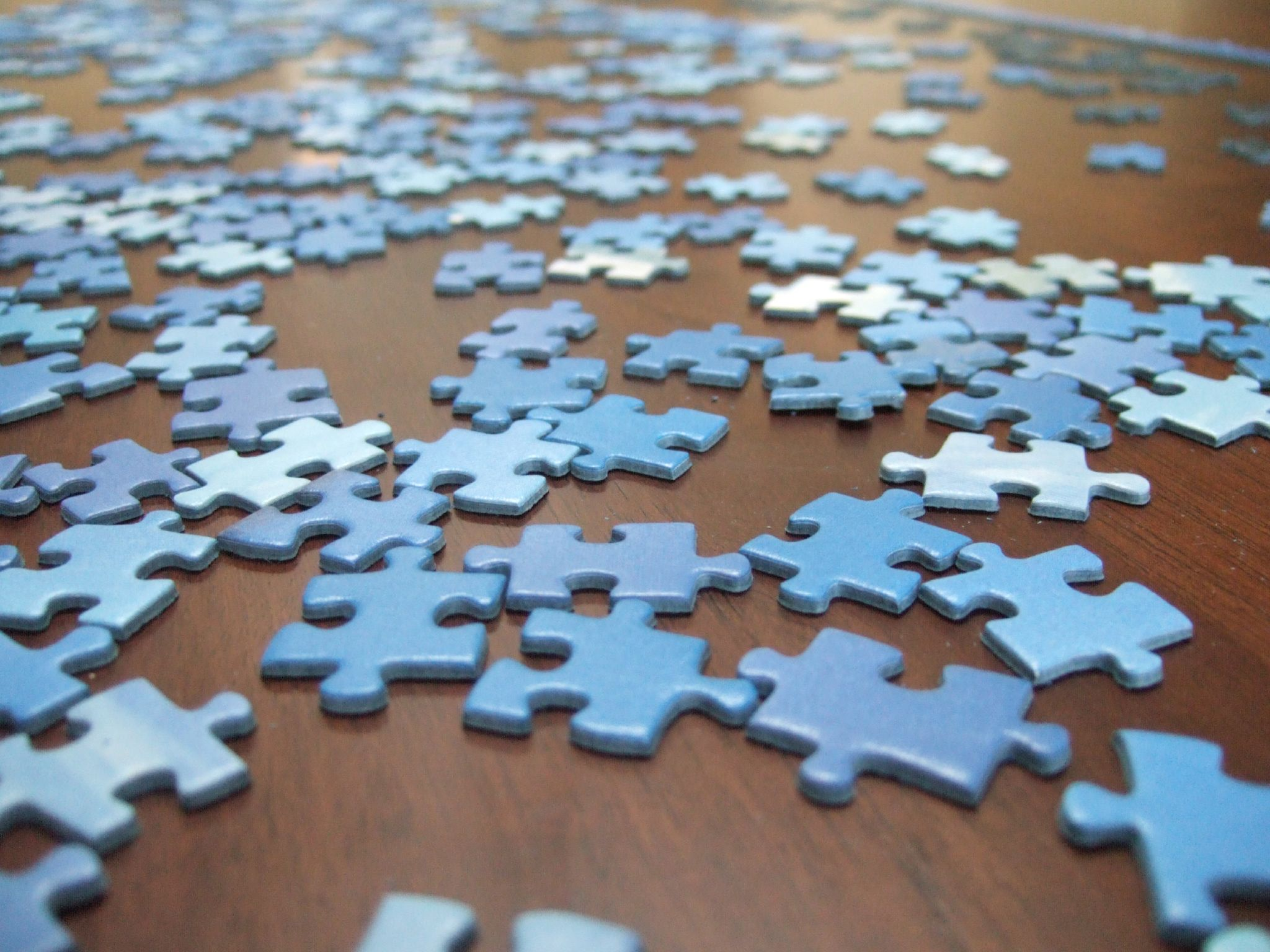 Jigsaw puzzle of blue sky, blue puzzle pieces on wood table.